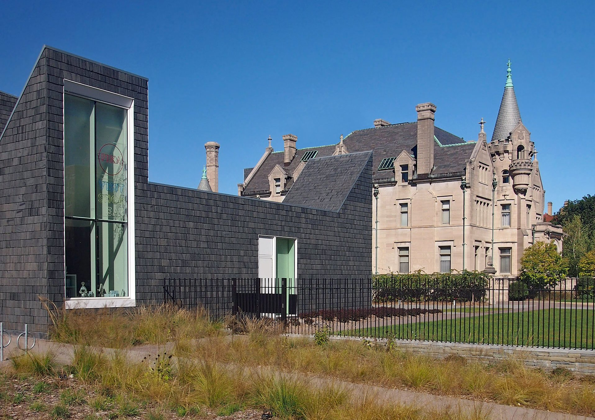 The American Swedish Institute, with the Nelson Cultural Center on the left and the Swan Turnblad Mansion on the right, 2600 Park Ave, Minneapolis, Minnesota, USA. Viewed from the southeast.